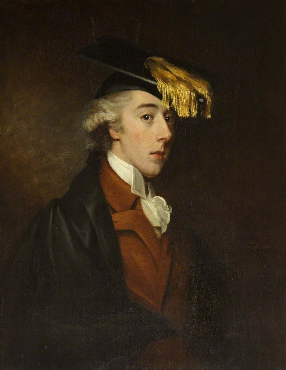 Portrait of George Lyttelton, 2nd Baron Lyttelton (1763–1828), British politician.